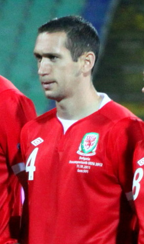 Wales national football team in 2011